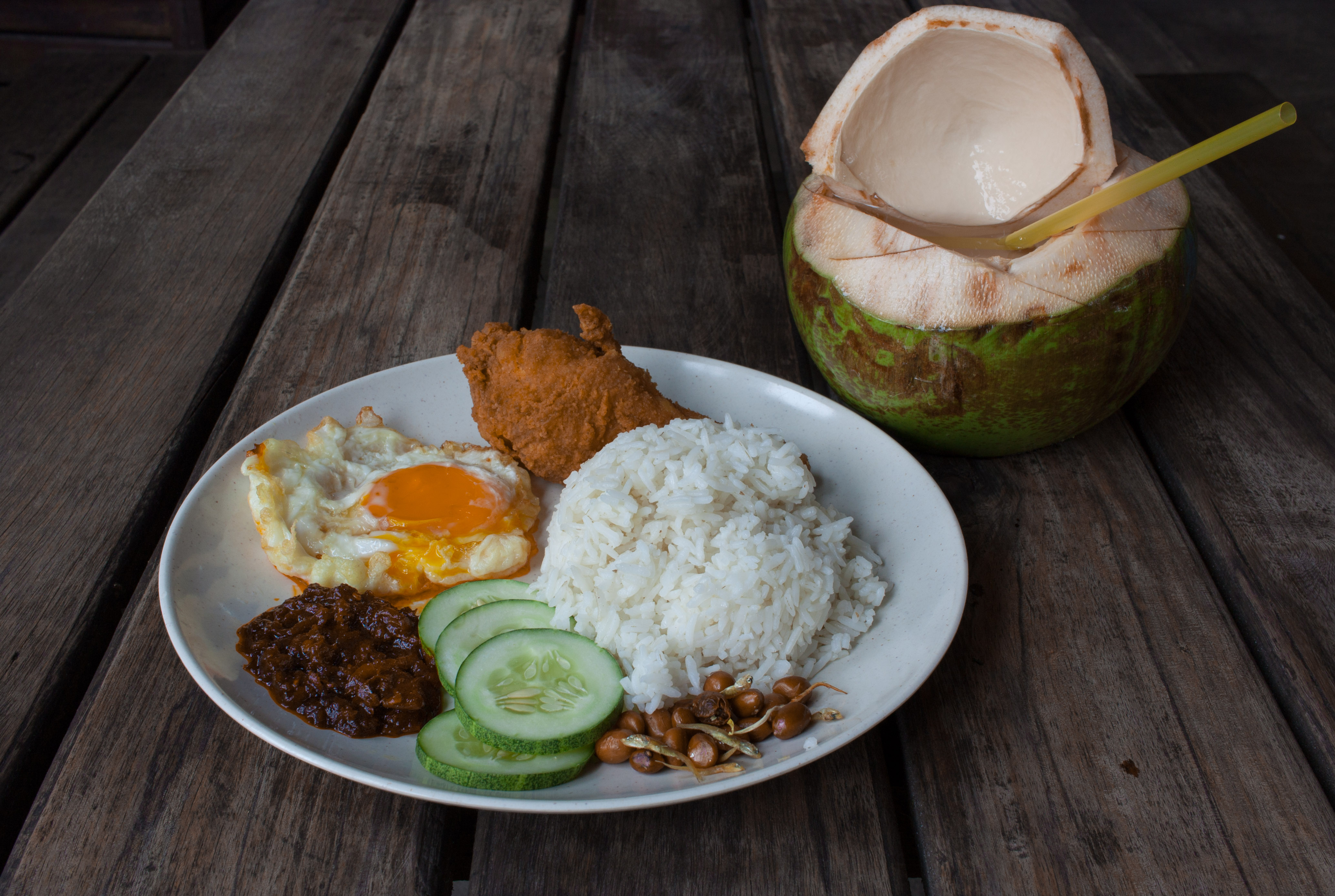 Nasi lemak